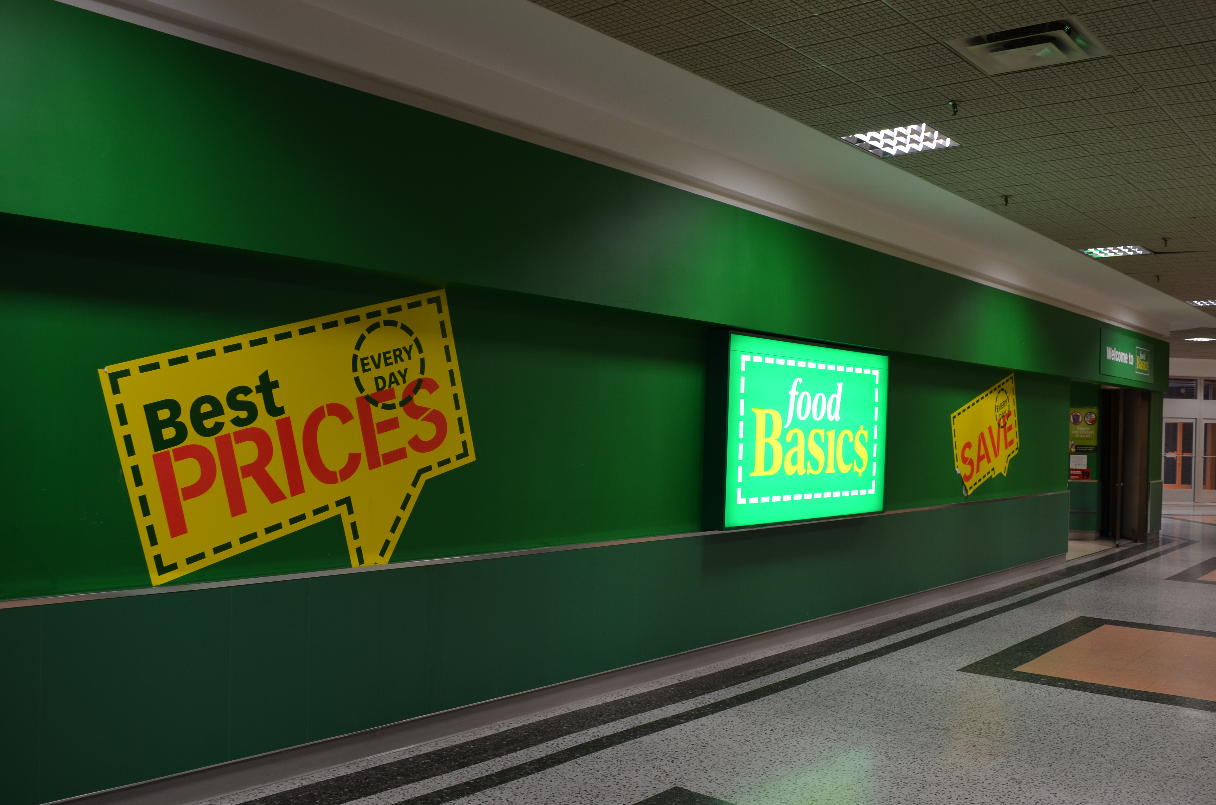 Food Basics in Markham.